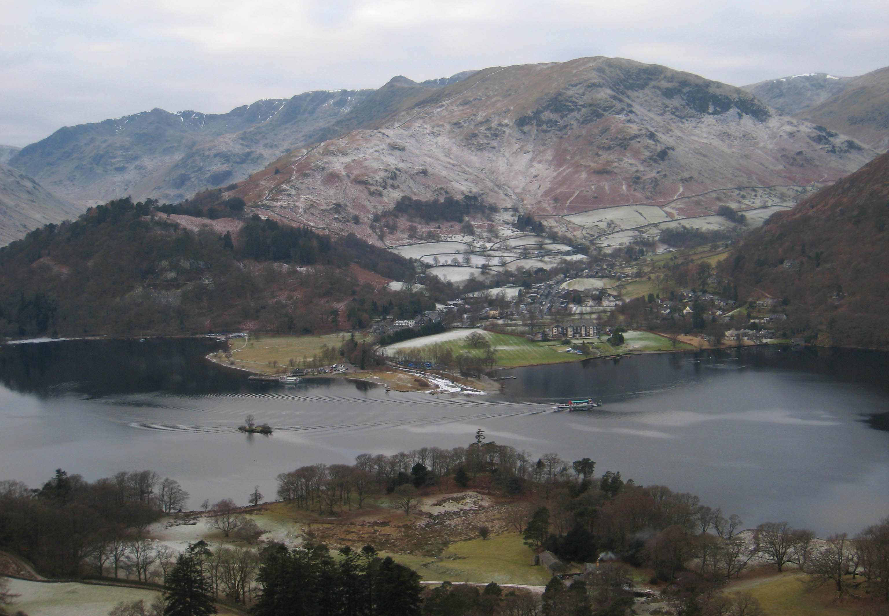 Glenridding and Ullswater from the slopes of Place Fell. The Ullswater Steamer can be seen leaving the pier. (I think it's the "Raven", which was certainly the boat in use on the identical voyage the following day.) The valley up to Greenside is seen leading off back to the right.